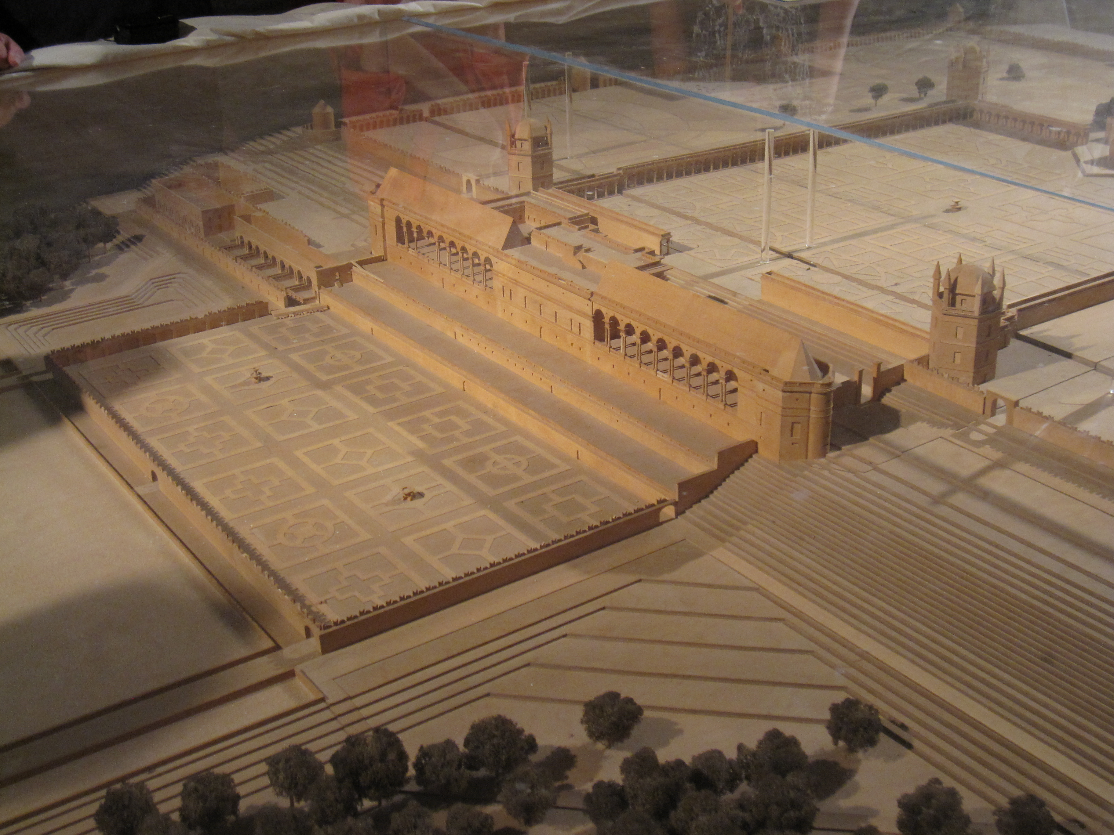 Architectural model of Neugebäude Palace in Vienna. Part of the permanent exhibit in the palace itself.